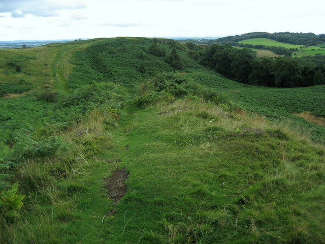 Croy Hill Summit of Croy Hill - the Antonine Wall can be seen running across, although it is somewhat smothered by bracken.